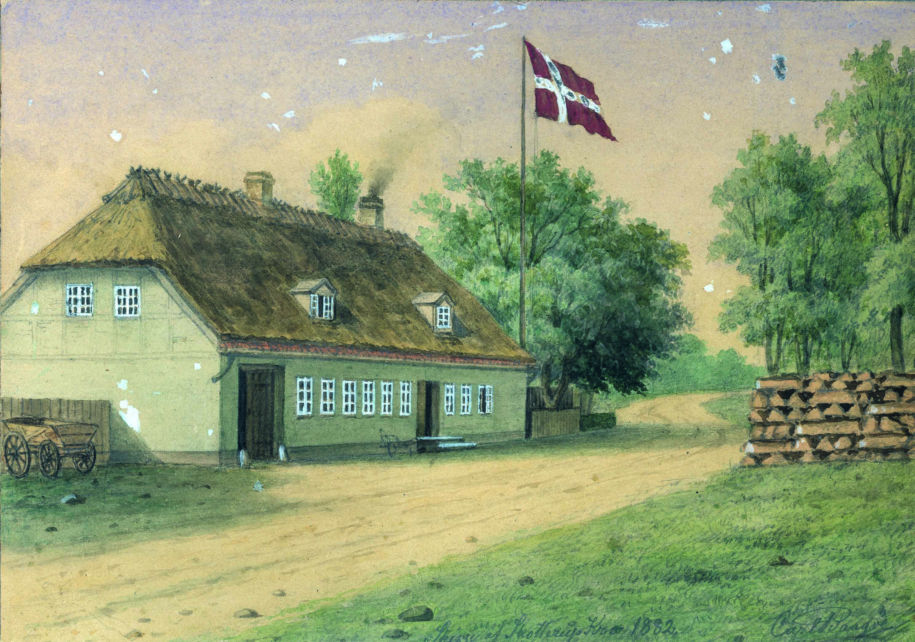 Sketch showing Skotterup Kro as it appeared in 1882